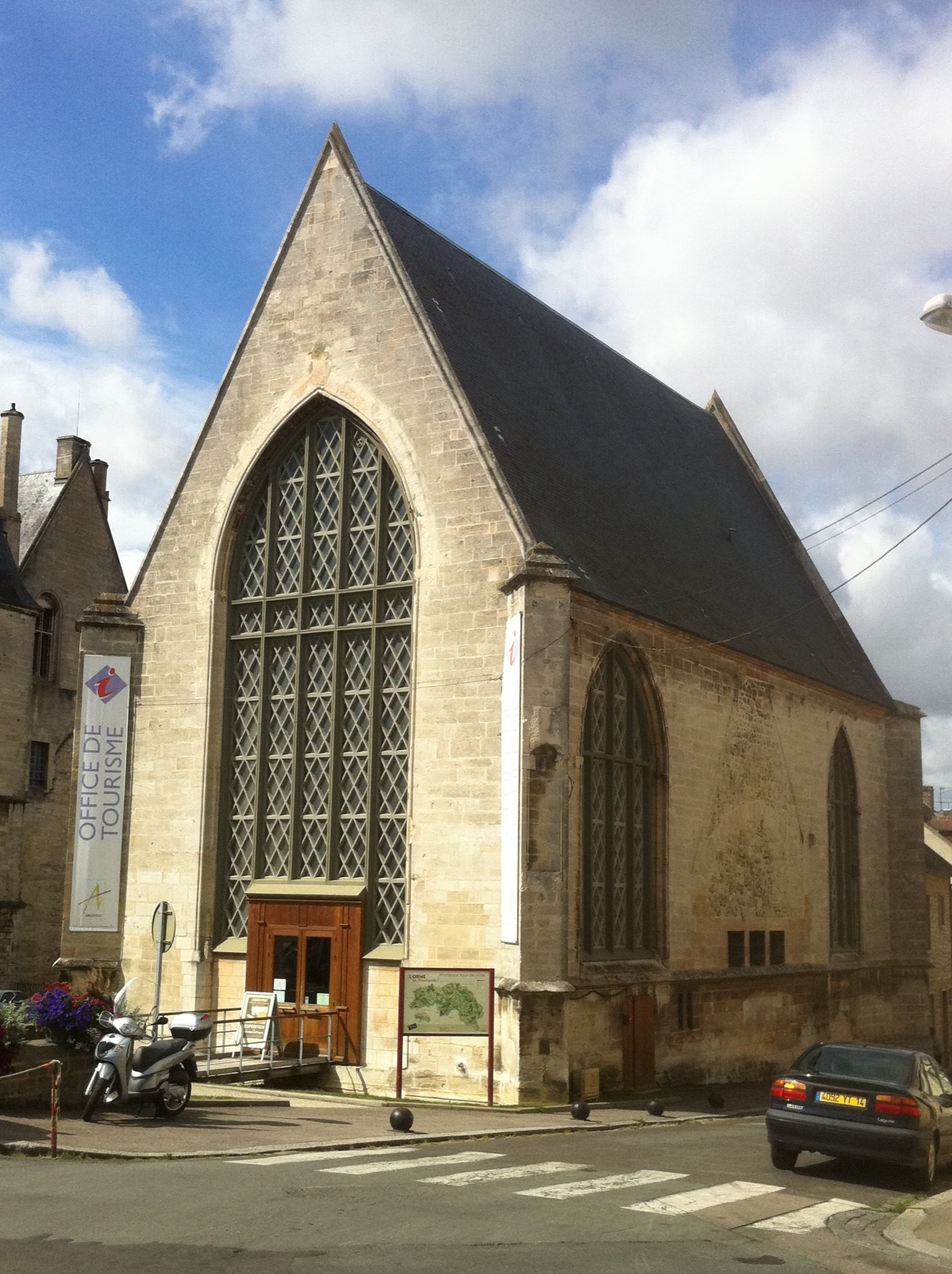 Chapel Saint Nicolas, end of 11 century construction